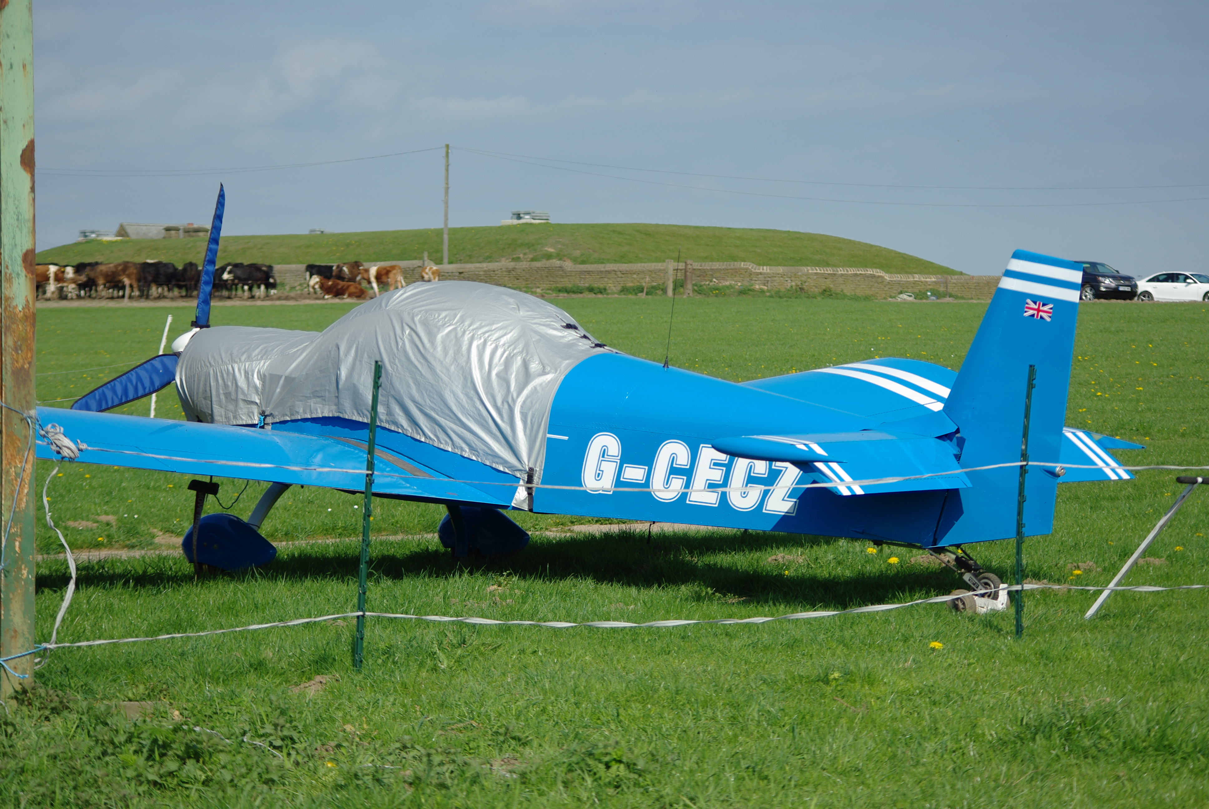 Zenith CH.601XL at Coal Aston Airfield